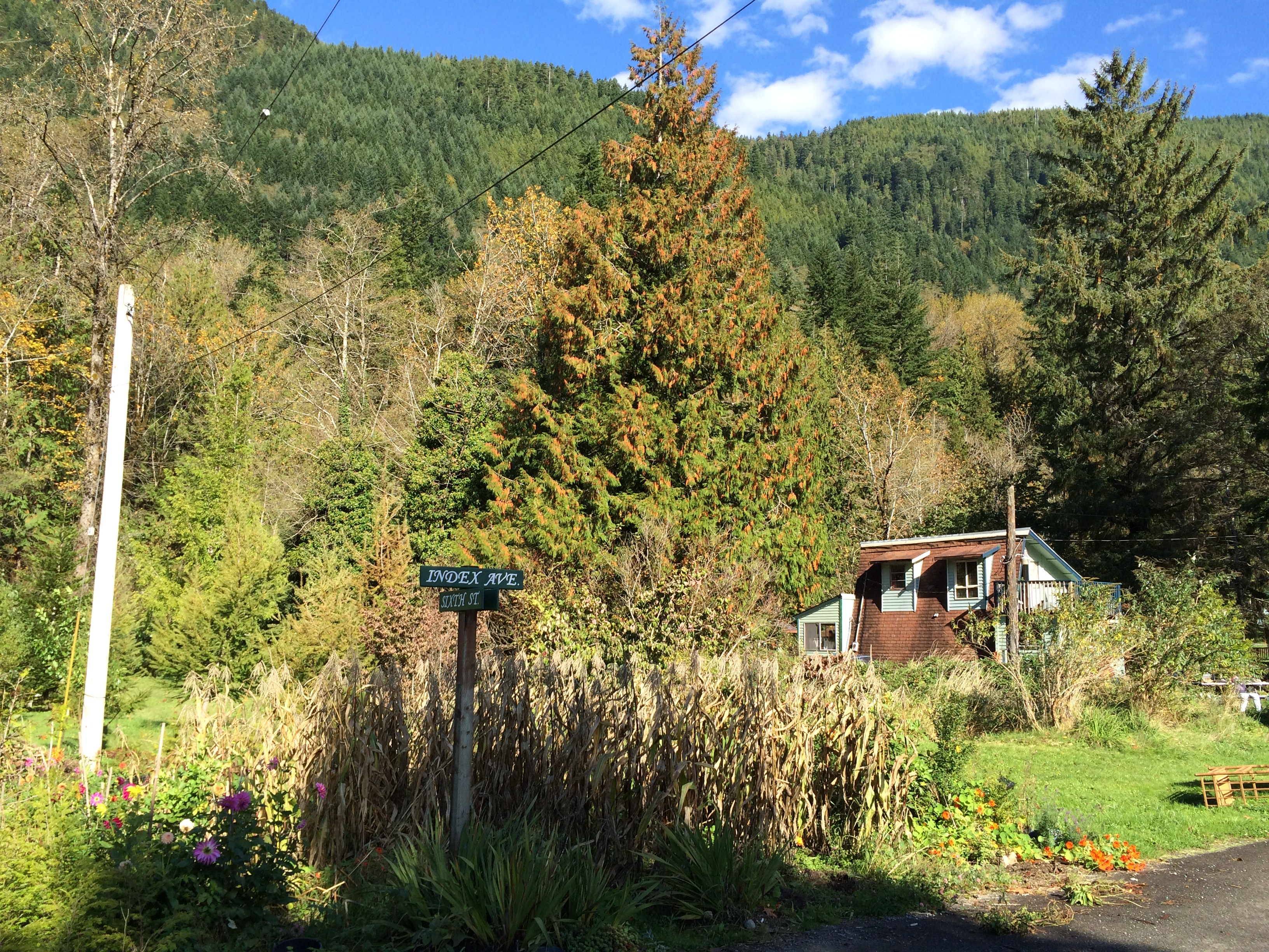 Red Men Hall No trace remains of the Site, a wood-frame two-story structure that stood on this location from 1903-1999.